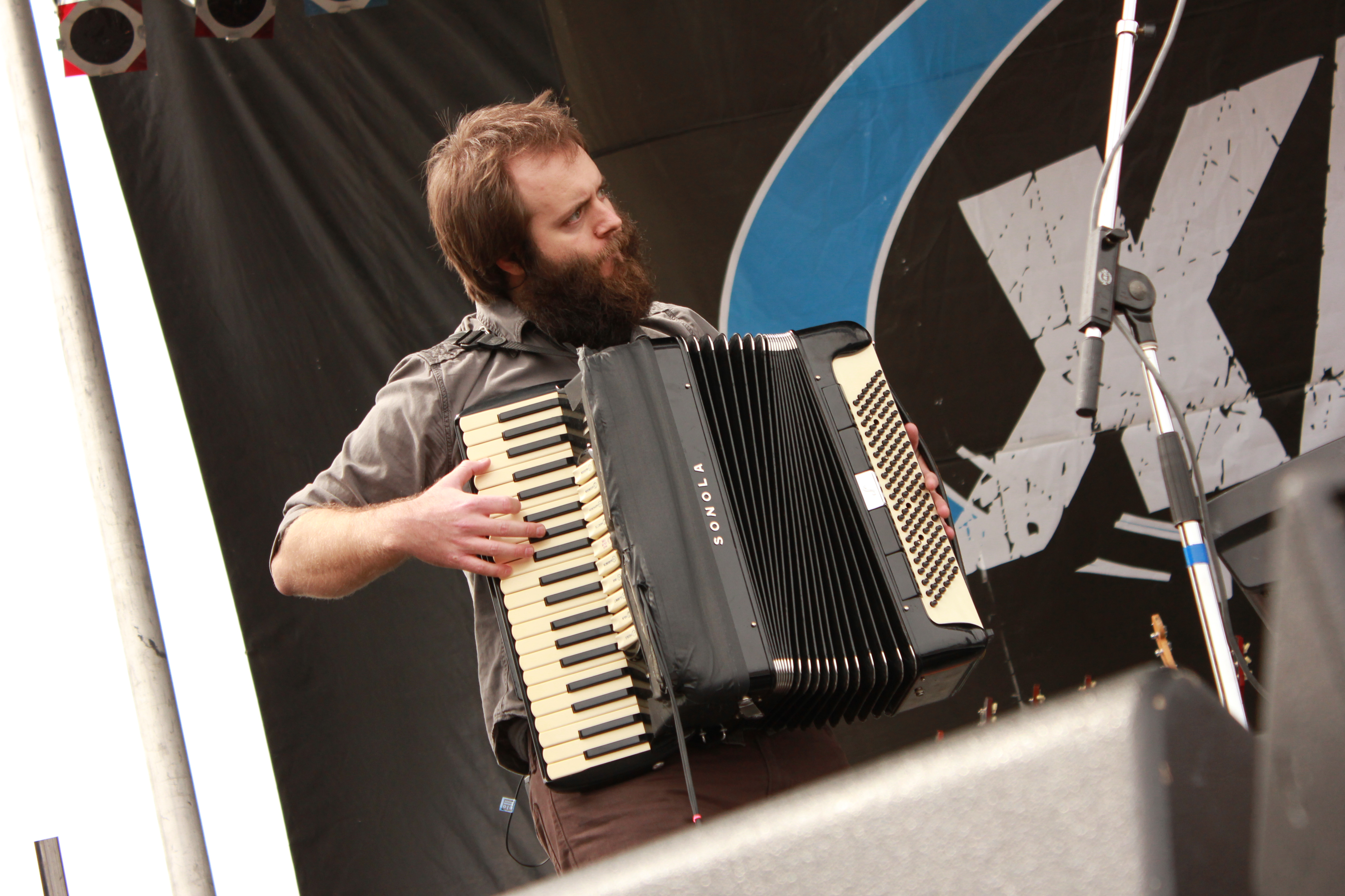 Johnny Kongos, member of the South African alternative rock band "Kongos"